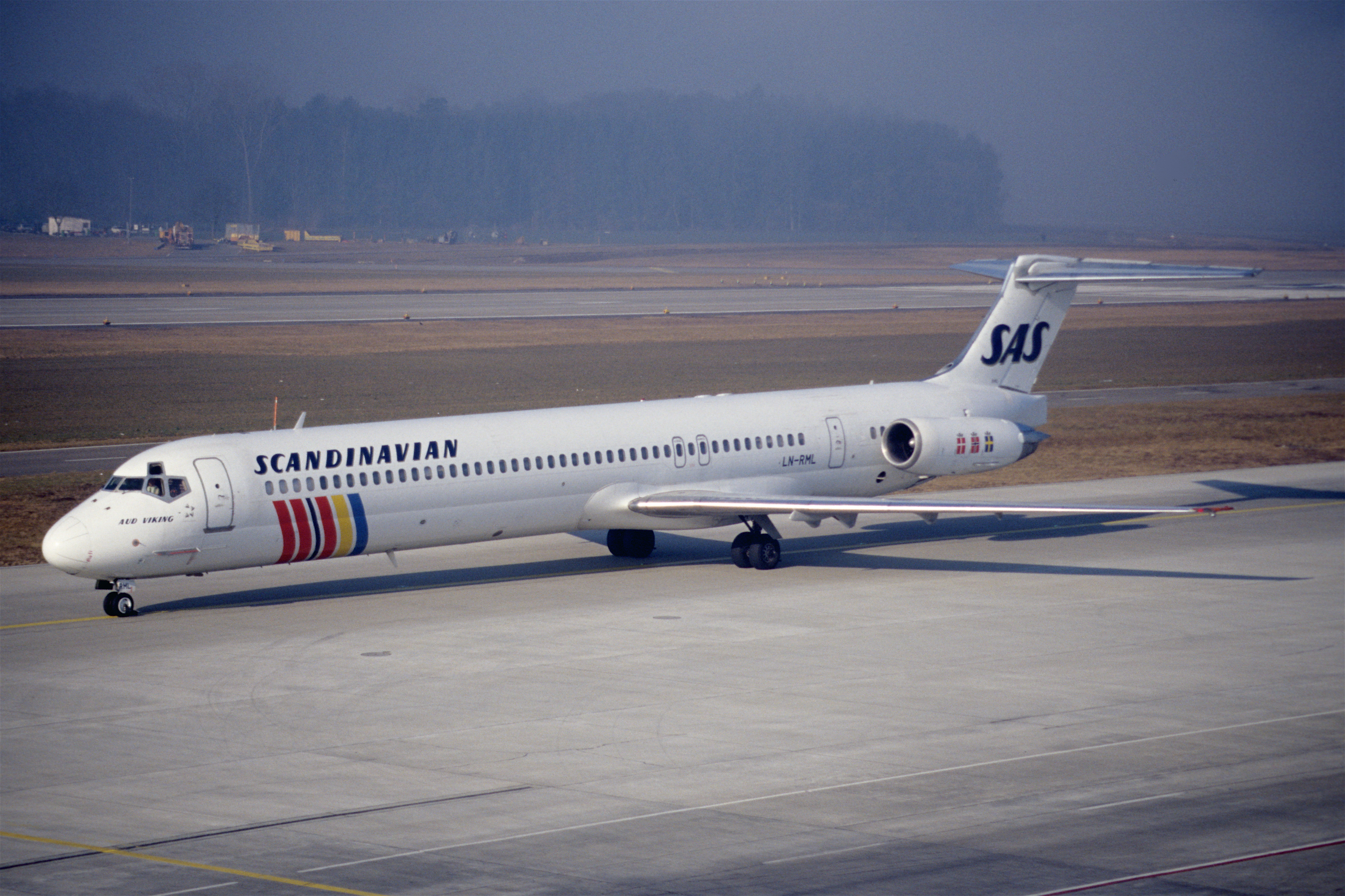 14ai - Scandinavian Airlines MD-81; LN-RML@ZRH;14.02.1998